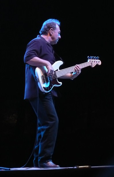 Stu Cook, bassist of Creedence Clearwater Revisited.